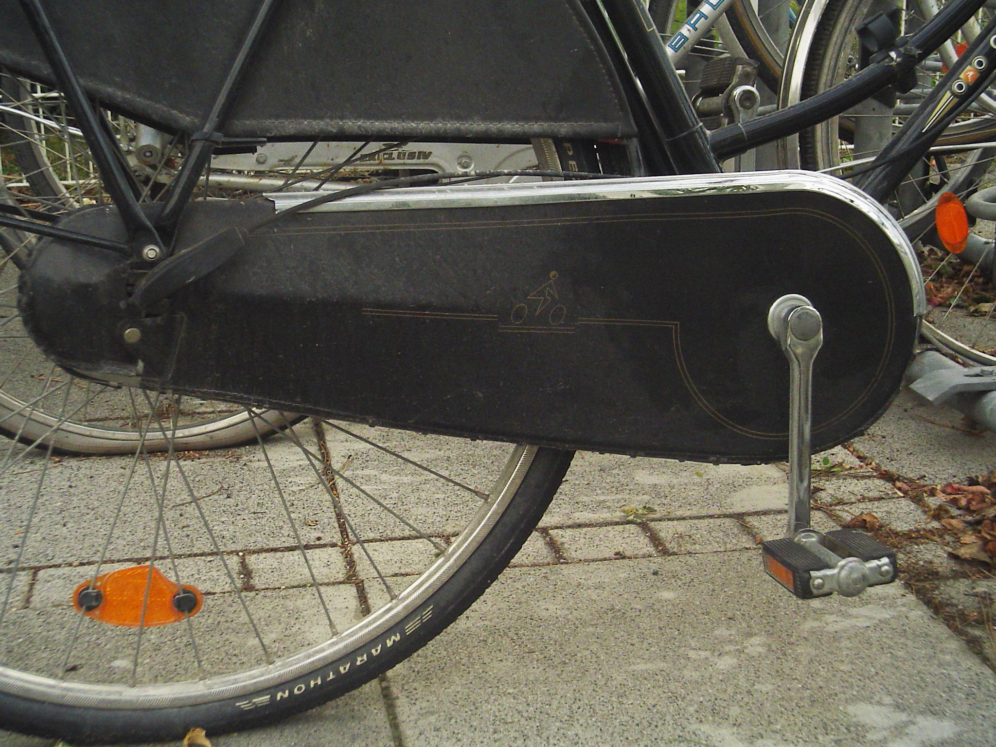 full chain guard on Netherland's bike (a Gazelle Toer Populair)